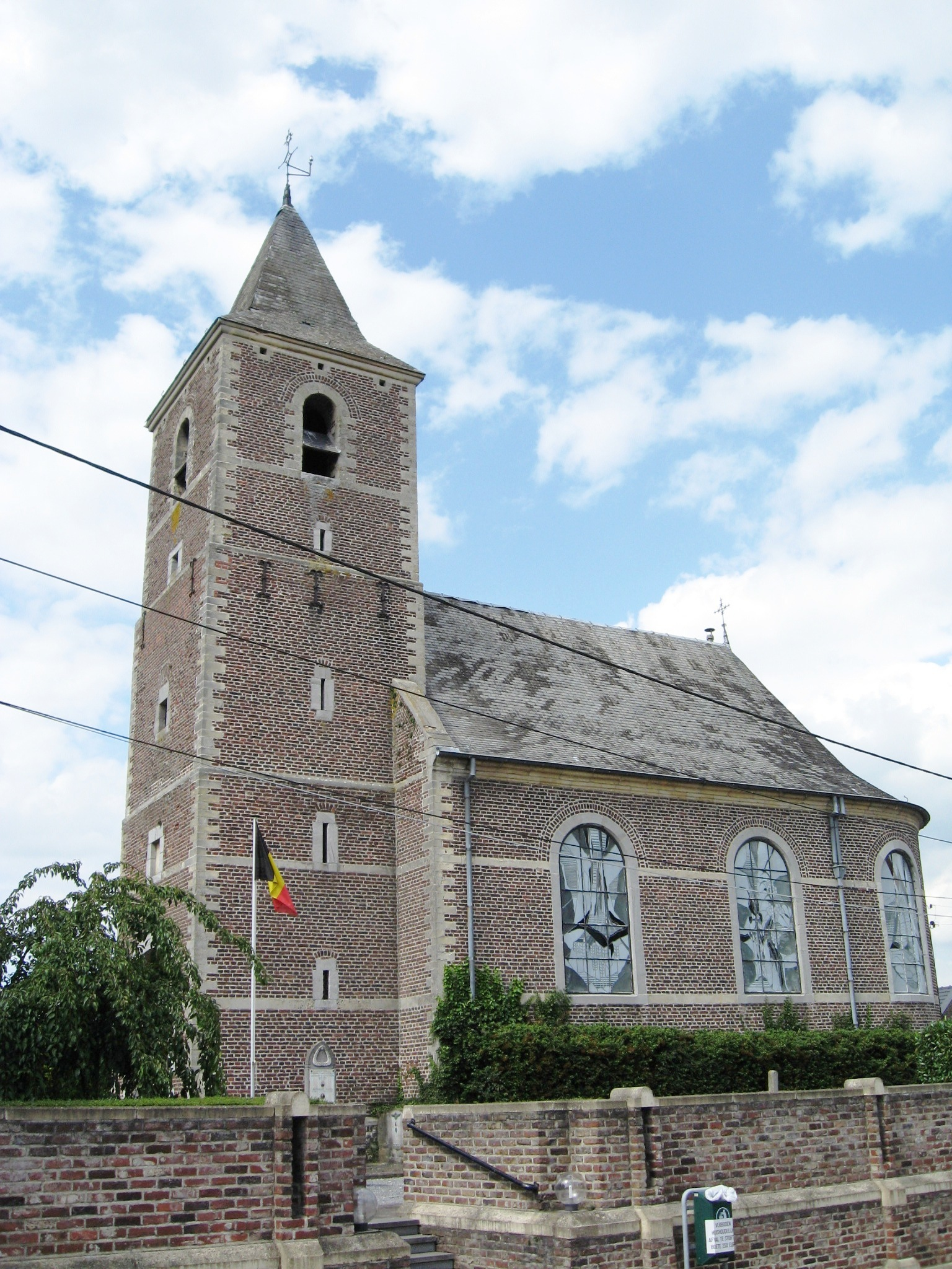 Church of Saint Lambert in Herten, Wellen, Limburg, Belgium